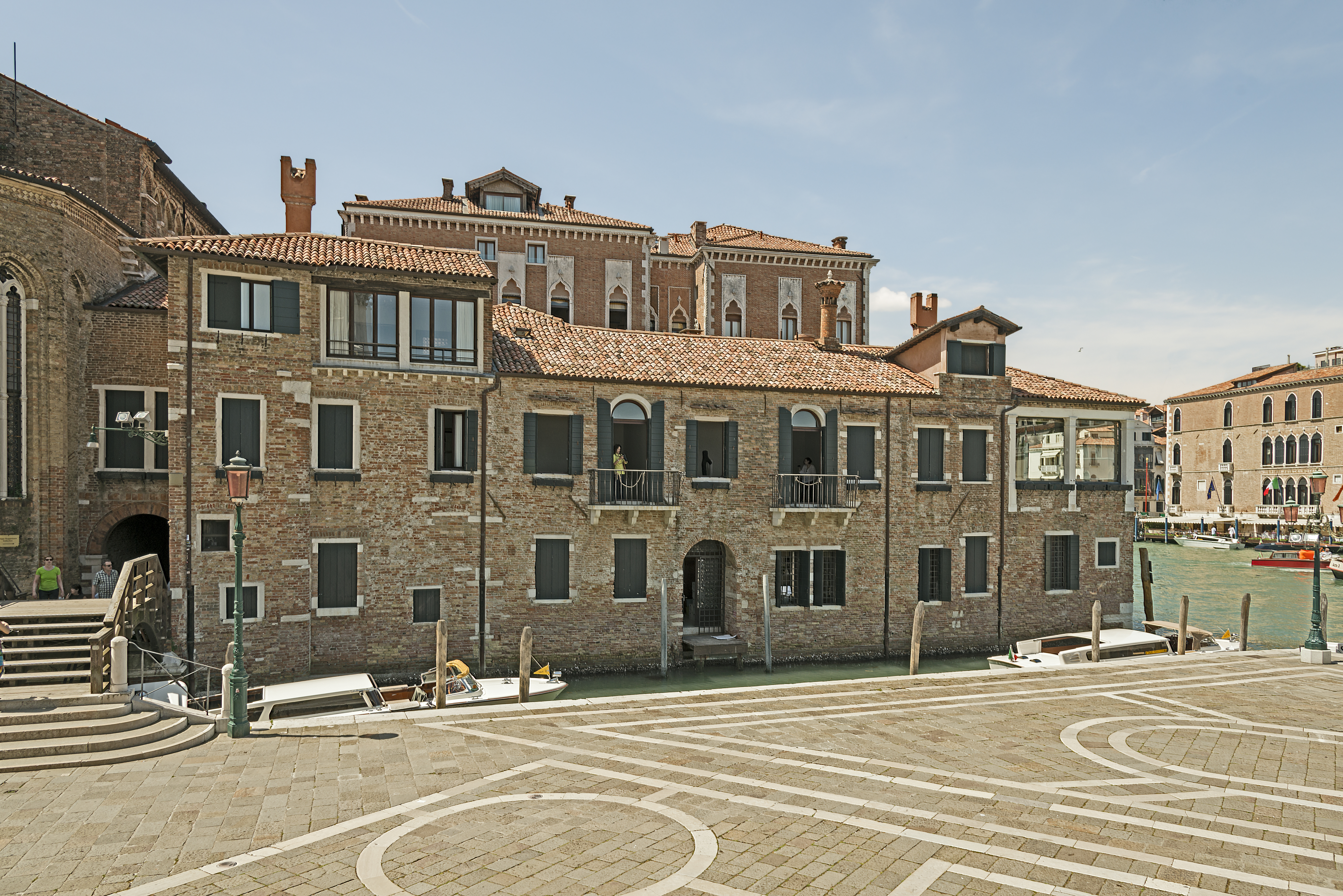 Abbazia San Gregorio in Venice, facade on rio de la Salute